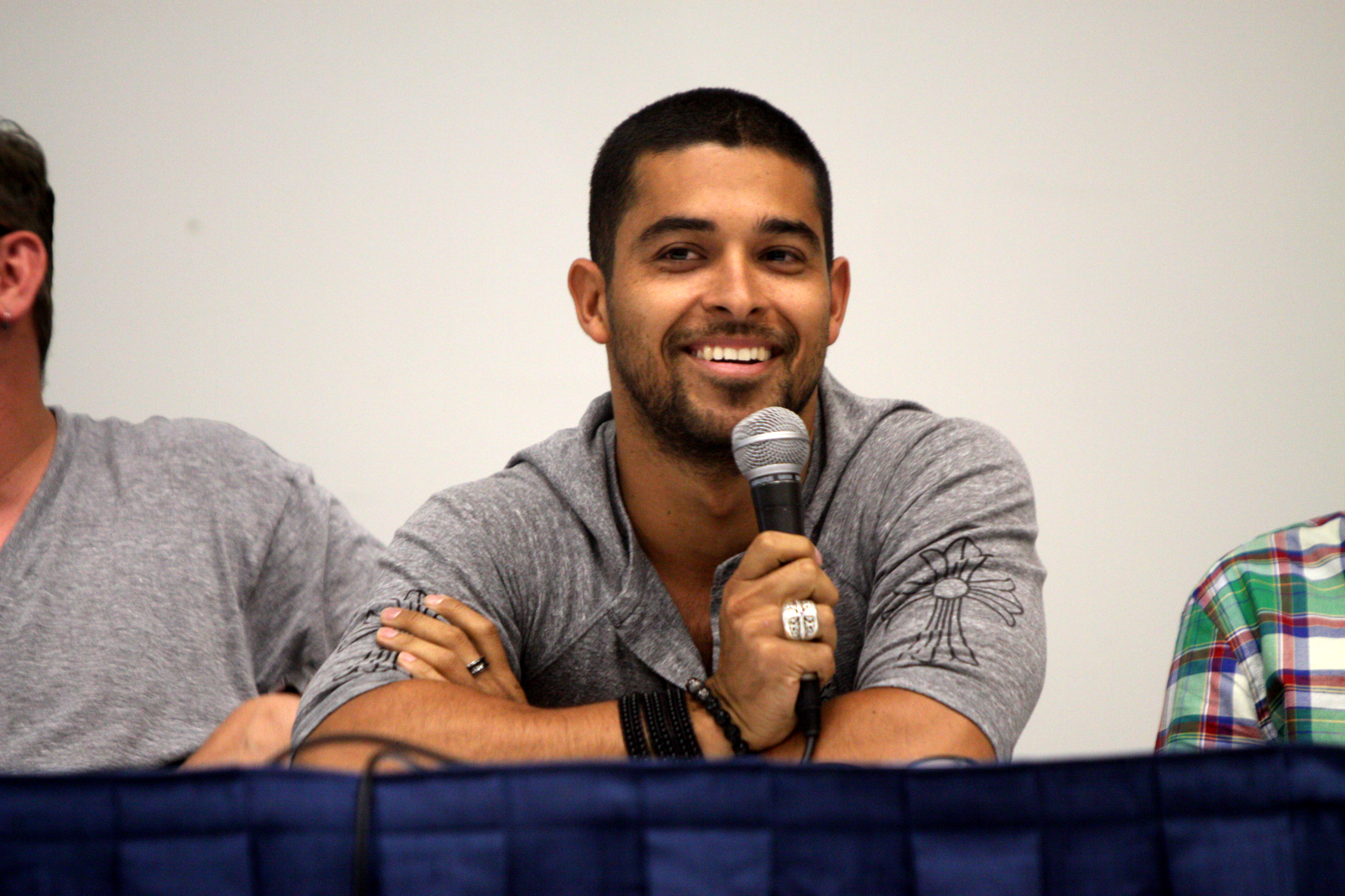 Wilmer Valderrama speaking at VidCon 2012 at the Anaheim Convention Center in Anaheim, California.